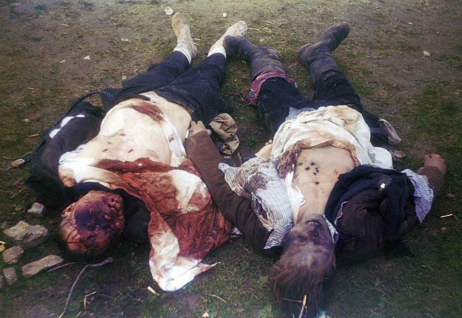 The bullet-ridden bodies of two SS guards who were killed in the Ohrdruf concentration camp soon after the liberation. Lieutenant Colonel Parke O. Yingst was born in Hummelstown, PA in 1908. In 1930 he graduated from the Colorado School of Mines and joined the Army Corps of Engineers as a reservist. He subsequently went to work in Venezuela. During this period, his reserve commission expired. After returning to the United States in 1940, Yingst applied for recommissioning so that he could join the fight against Hitler. In 1942 he was ordered to active duty as a First Lieutenant in the Army Corps of Engineers. On April 4, 1944 he was promoted to Major, and in July, he assumed command of the 281st Engineer Combat Battalion. In April 1945 Yingst was present at the liberation of the Ohrdruf and Buchenwald concentration camps. He was eventually promoted to Lieutenant Colonel prior to his separation from the army for medical reasons.